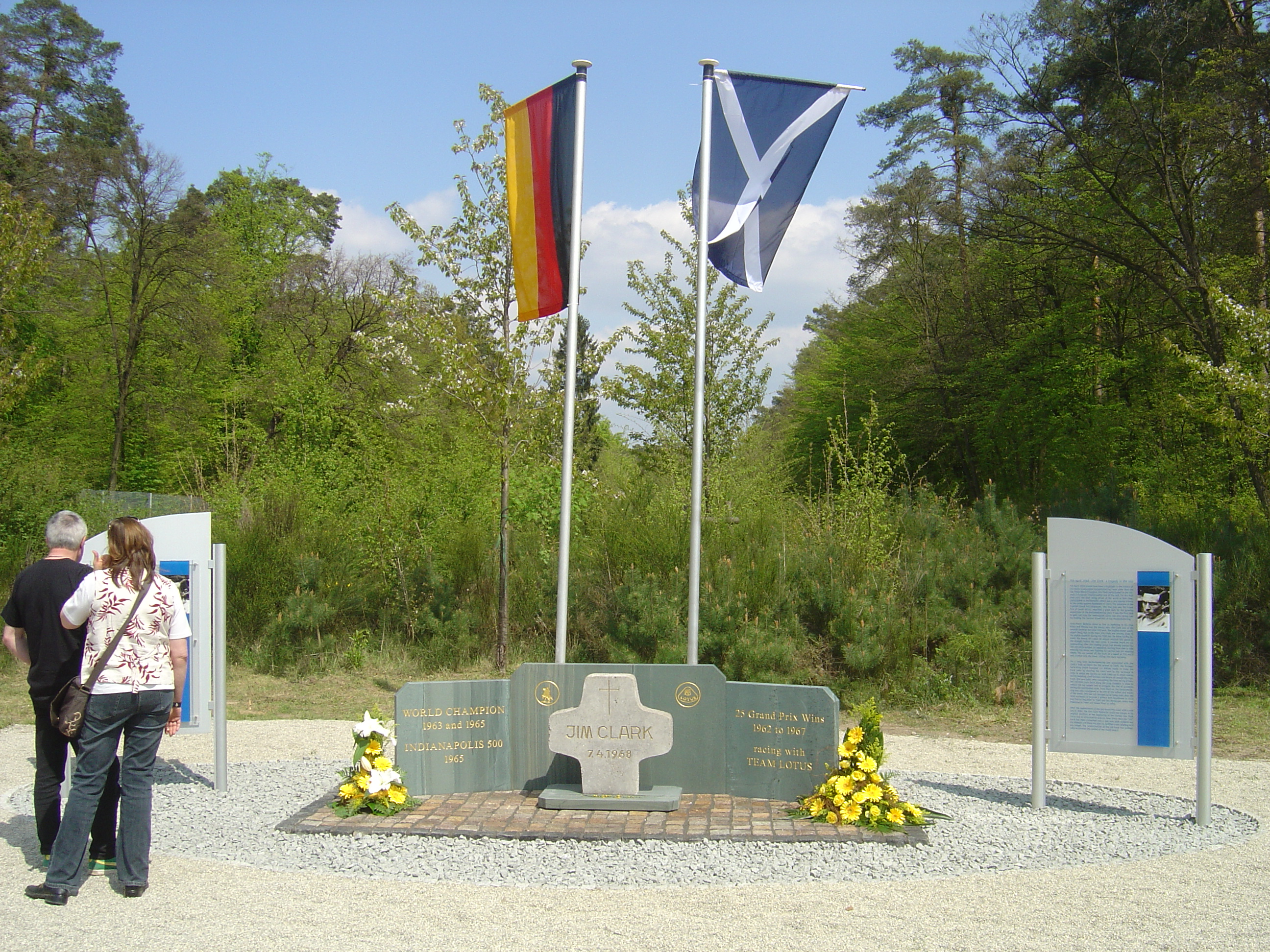 Jim Clark memorial site on the day of the re-inauguration: the photo was taken during 2008's Jim Clark Revival at Hockenheim